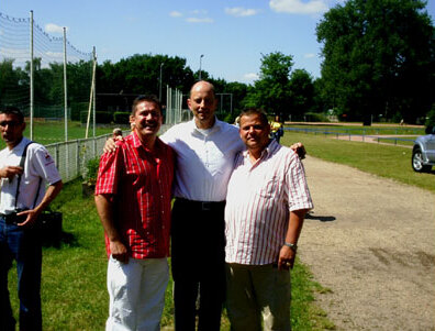 The former Lord Mayor of Leipzig, Germany, Wolfgang Tiefensee the former Chairman of the sports club SV Lindenau 1848 e.V. Robby Müller (left) and the Chairman of football Holger Fuchs (right)